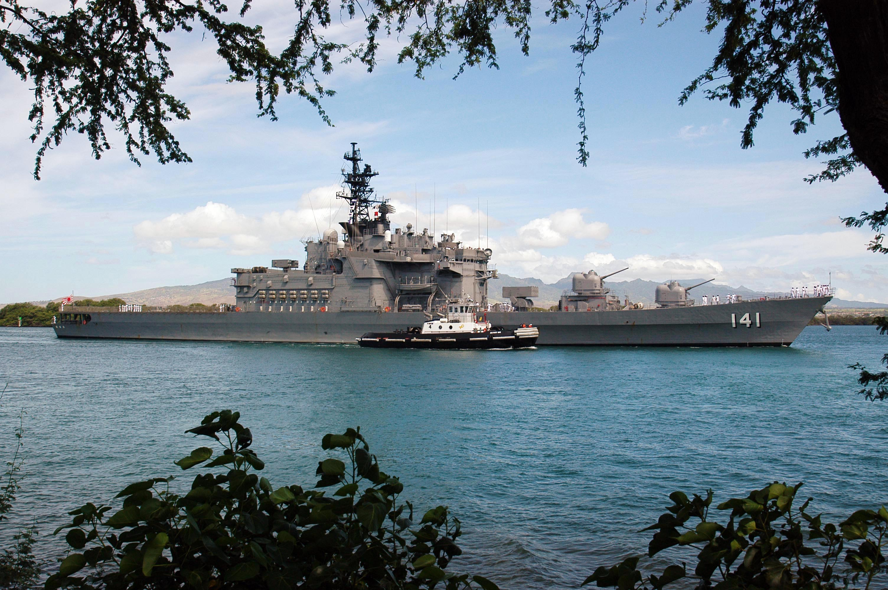 Pearl Harbor, Hawaii (June 25, 2004) – The Japanese destroyer JDS Haruna (DDH 141) passes Hospital Point in Pearl Harbor, Hawaii, during arrival honors prior to the multinational maritime exercise "Rim of the Pacific 2004" (RIMPAC). RIMPAC is the largest international maritime exercise in the waters around the Hawaiian Islands. This years exercise will include seven participating nations; Australia, Canada, Chile, Japan, South Korea, Britain and the United States. RIMPAC is intended to enhance the tactical proficiency of participating units in a wide array of combined operations at sea, while enhancing stability in the Pacific Rim region. U.S. Navy photo by Photographer's Mate 2nd Class Dennis C. Cantrell (RELEASED)